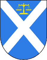 Coat of Arms of Janavičy, Belarus